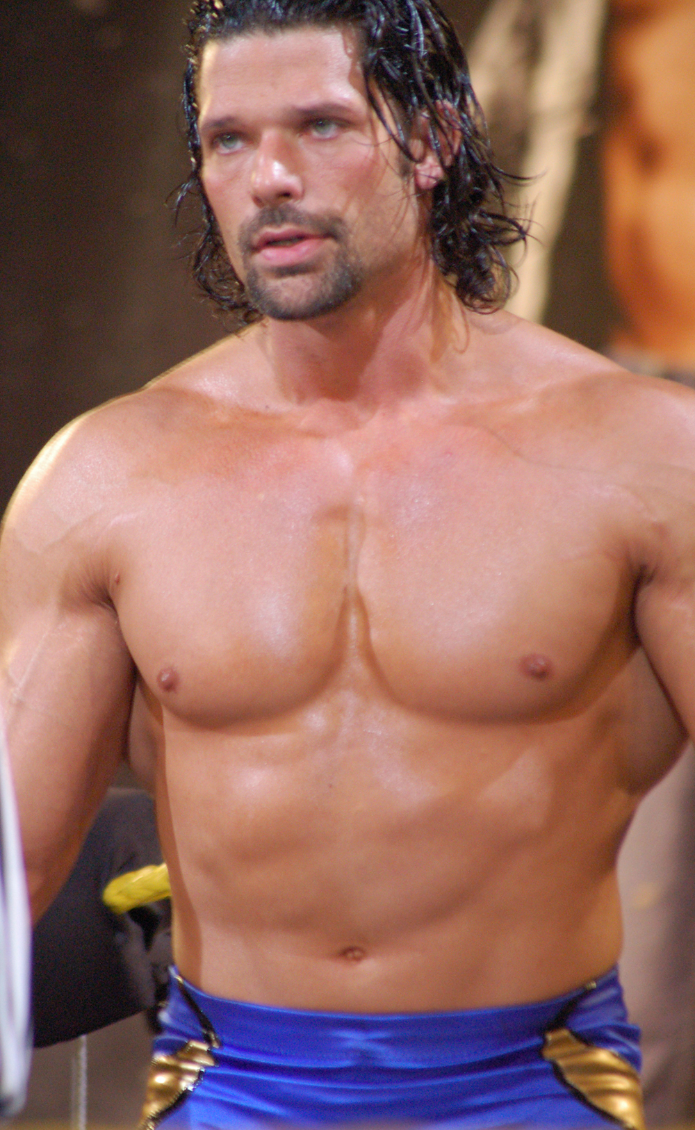 Photo I took of Leo Kruger on 2/17/2011 at the Florida Championship Wrestling studio in Tampa FL.